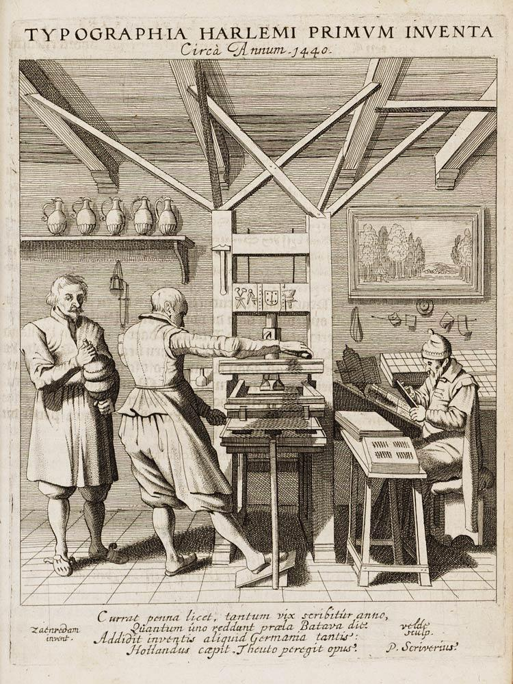 1628 version of Haarlem printing press from 1440 (Invention of Laurens Jansz Coster)